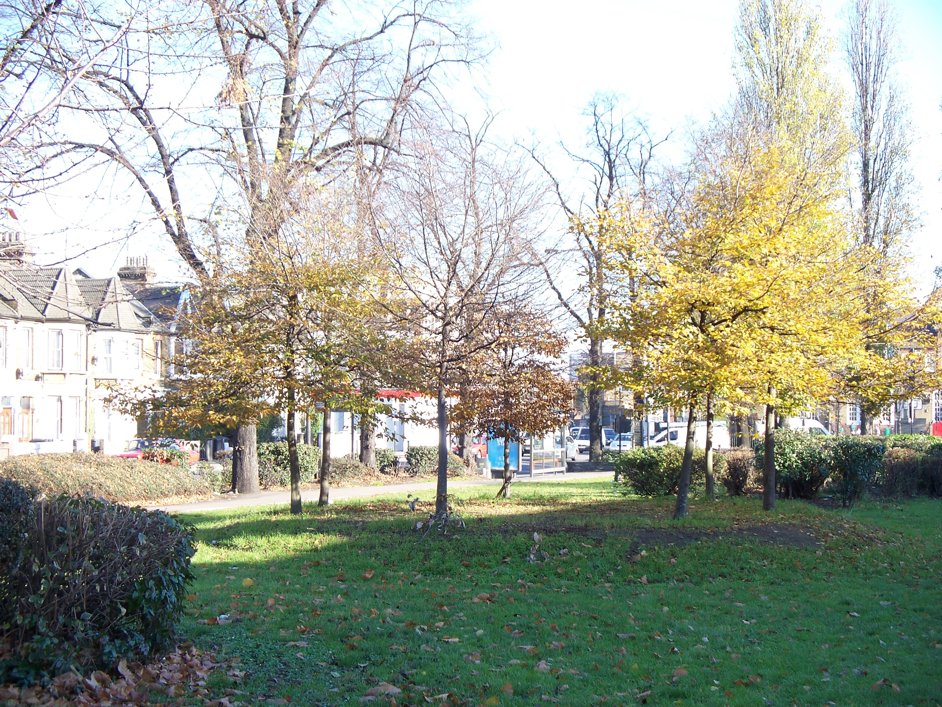 The Seven Sisters trees, London